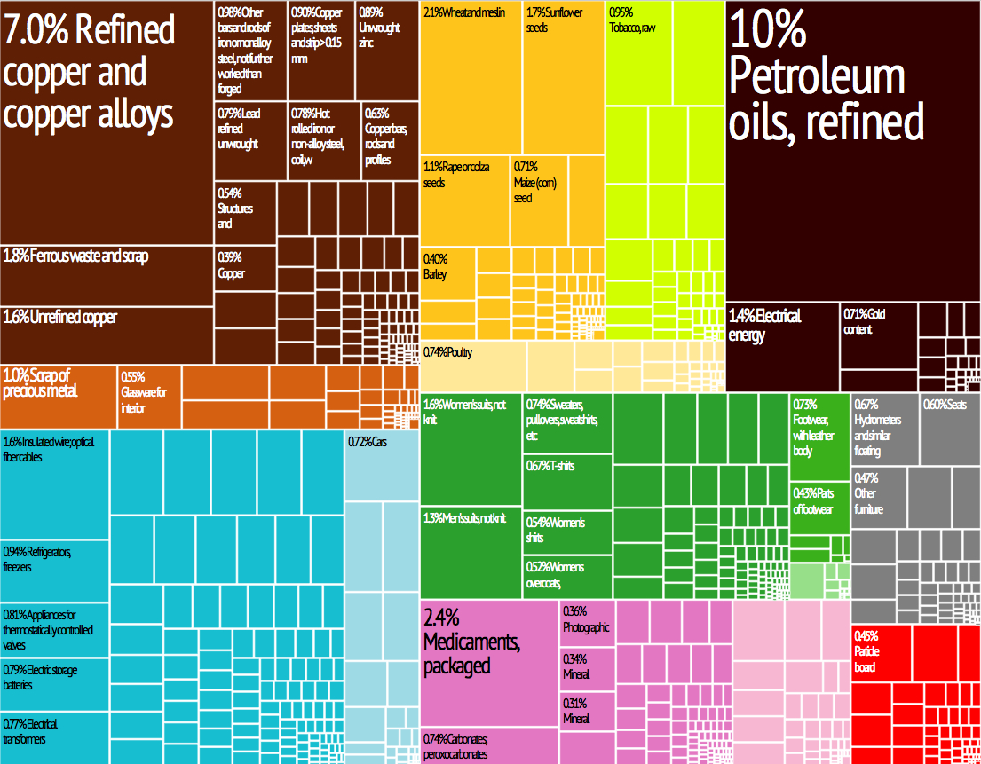 Bulgaria Export Treemap from MIT Harvard Economic Observatory